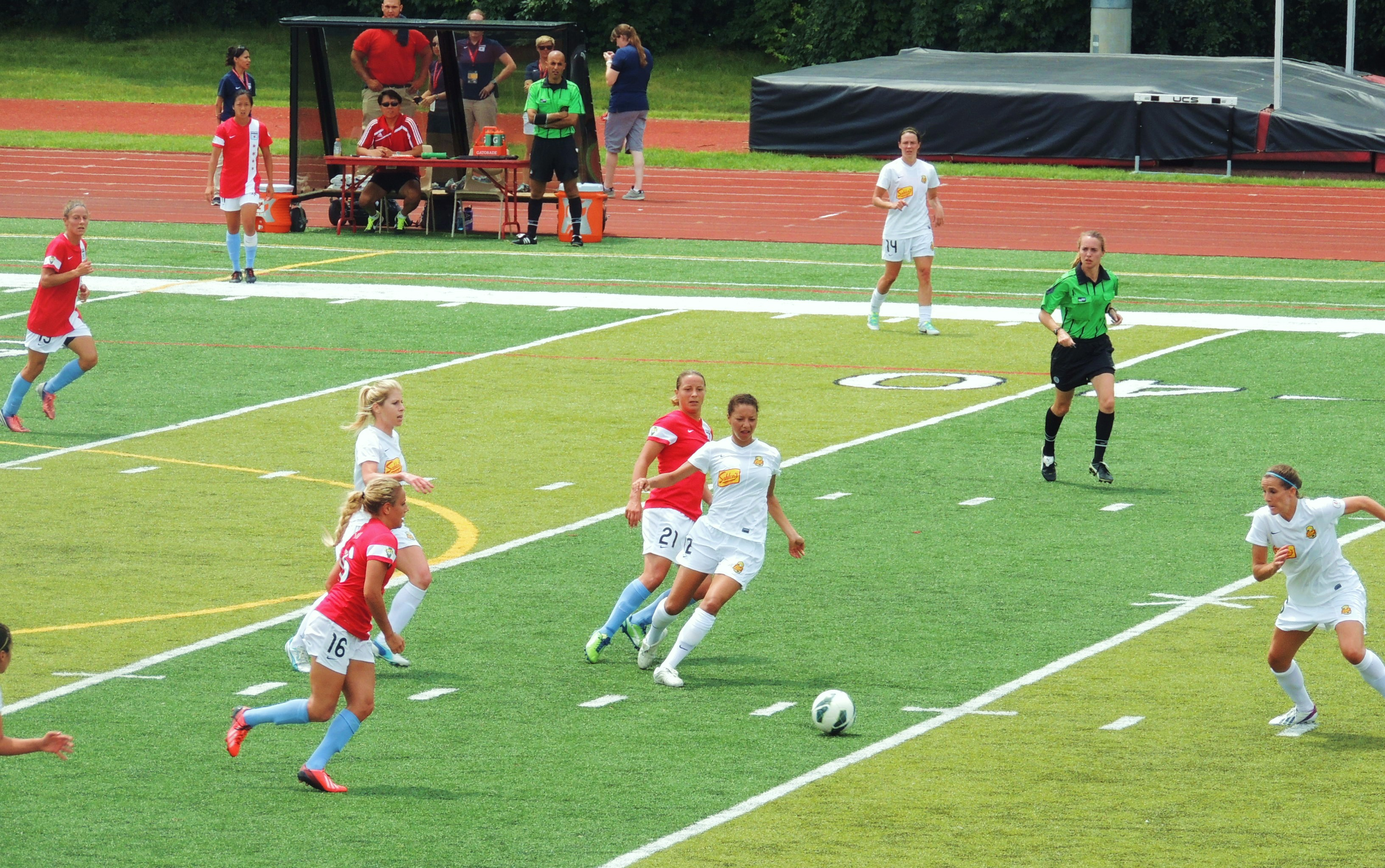 2013-07-04; Chicago Red Stars vs Western New York Flash, on Flash side of midfield